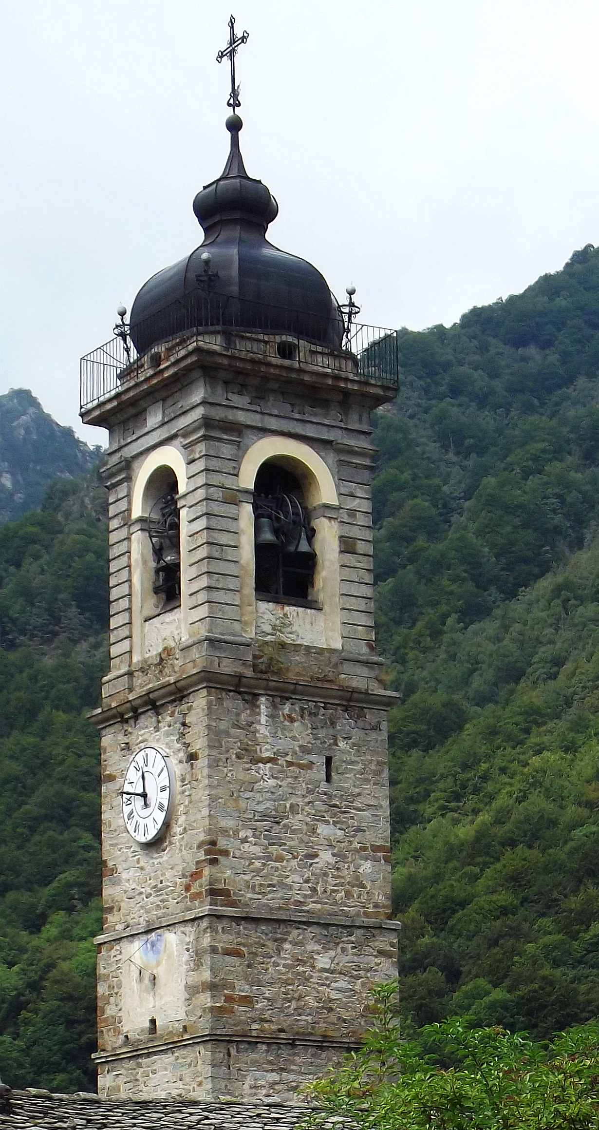 Piedicavallo (BI, Italy): church tower